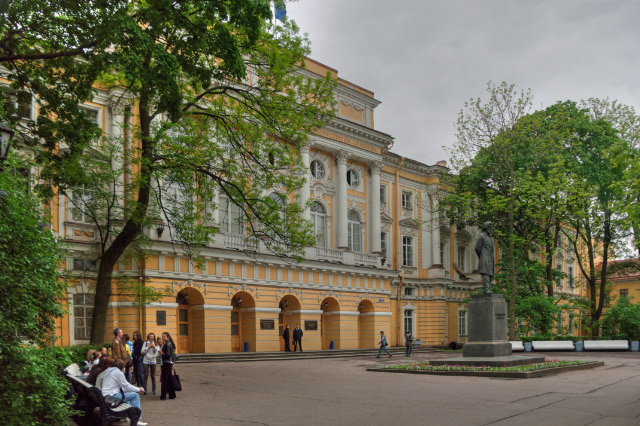 Saint Petersburg (Russia), Herzen University.